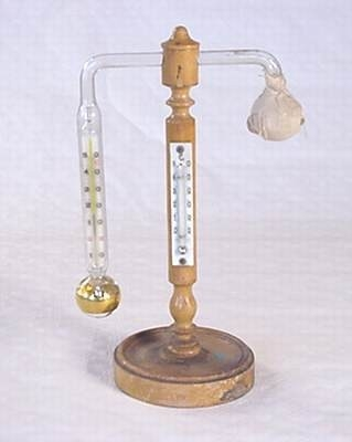 Dewpoint hygrometer according to Daniell